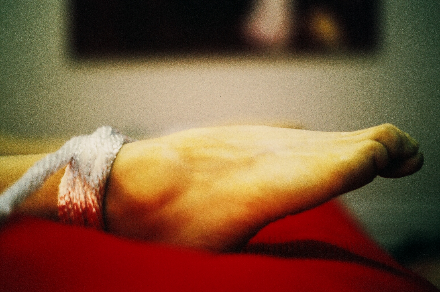 Color Infrared photos in San Francisco